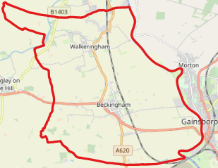 Map of the Beckingham ward of Bassetlaw. This map may be incomplete, and may contain errors. Don't rely solely on it for navigation.